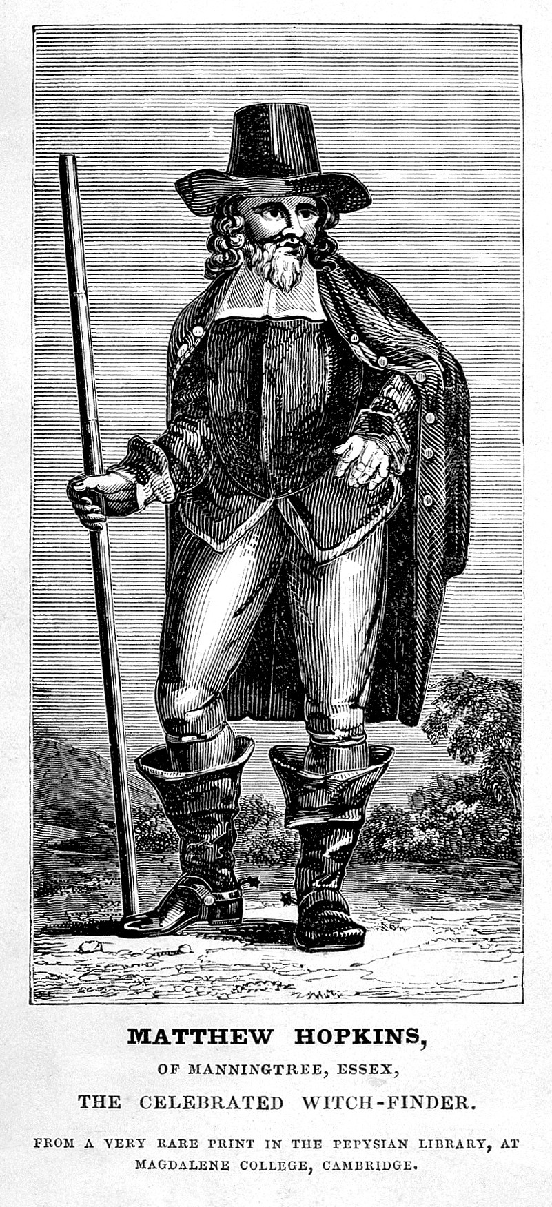 Matthew Hopkins, of Manningtree Essex, The Celebrated Witch-finder. From a very rare print in the Pepysian Library, at Magdelene College, Cambridge. Wellcome Images